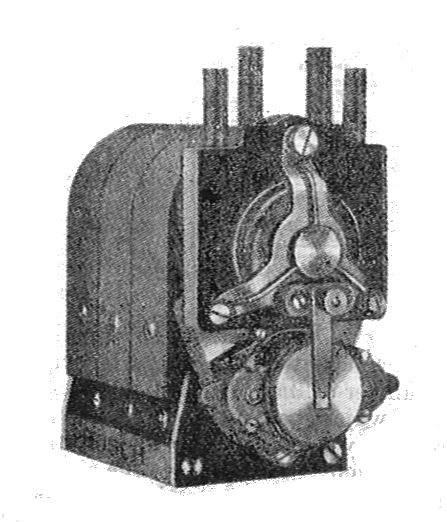 Bosch magneto (Army Service Corps Training, Mechanical Transport, 1911).jpg